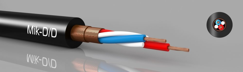 Internal structure of a microphone cable